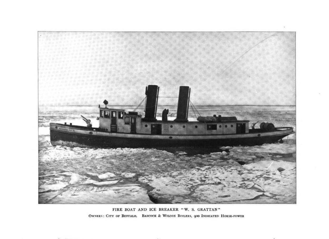 Image of the William S. Grattan fireboat (now known as the Edward M. Cotter) currently in service with the Buffalo, New York fire department. This is a cropped image with the Google digitized image watermark removed and color corrected.